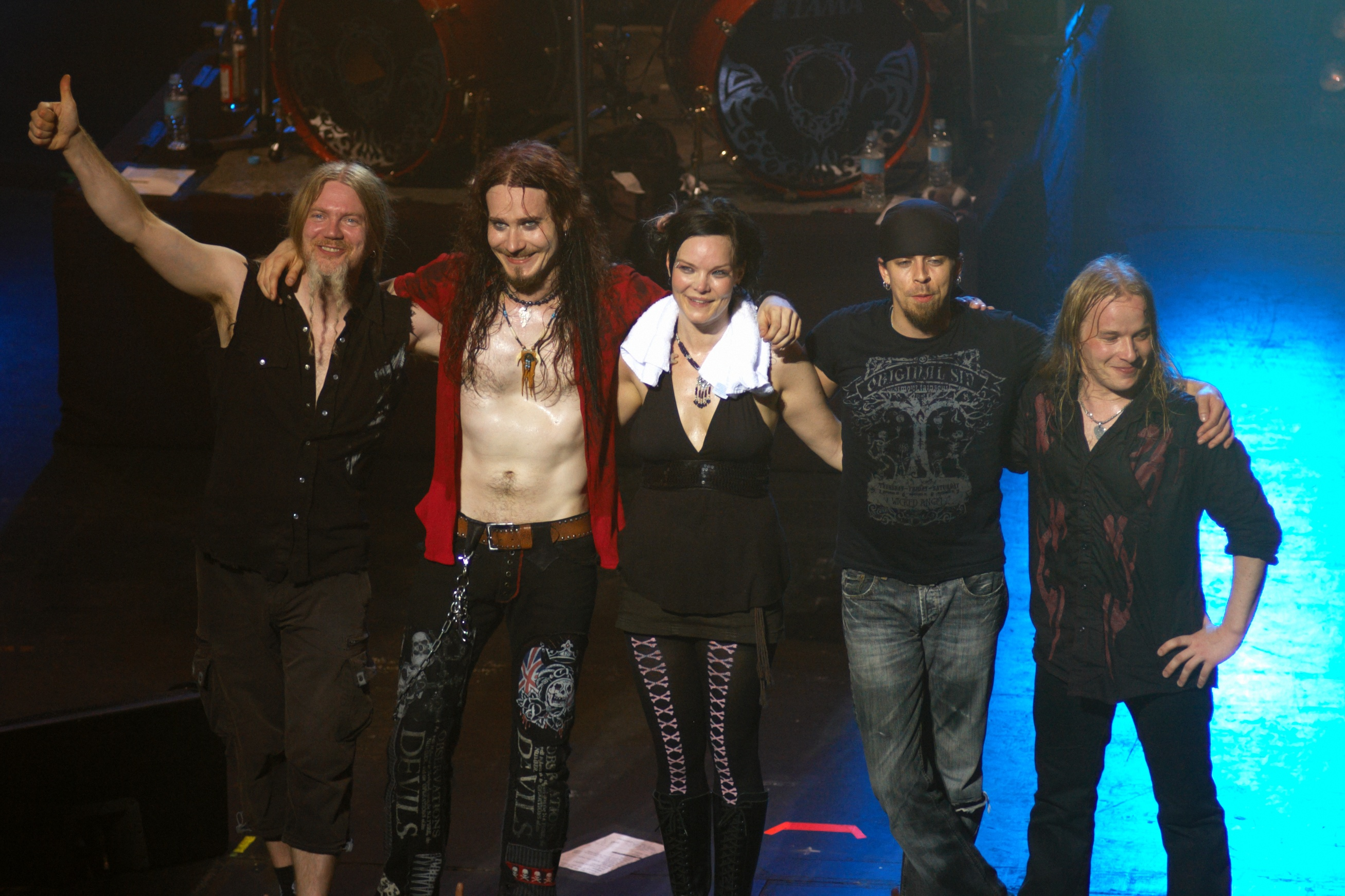 Nightwish take a bow at the end of a concert at The Palais in Melbourne, Australia, in January 2008.